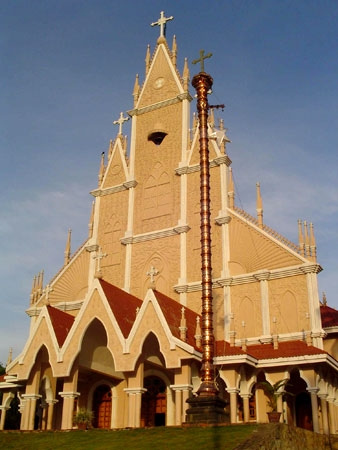 St. Mary's Jacobite Syrian Cathedral, Arumurikkada, Kundara, Kollam, Kerala, India